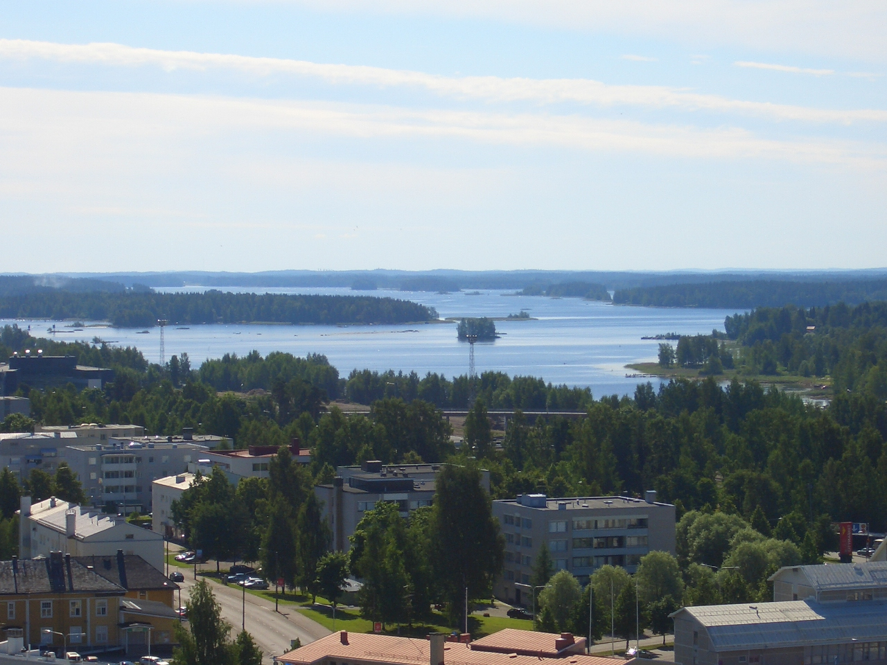 View of the city of Varkaus, Finland